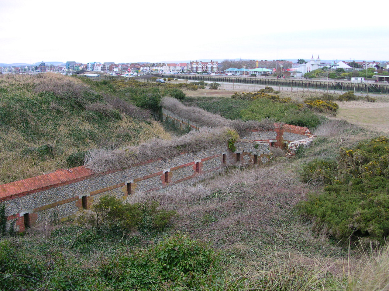 Littlehampton Redoubt, West Sussex, England.